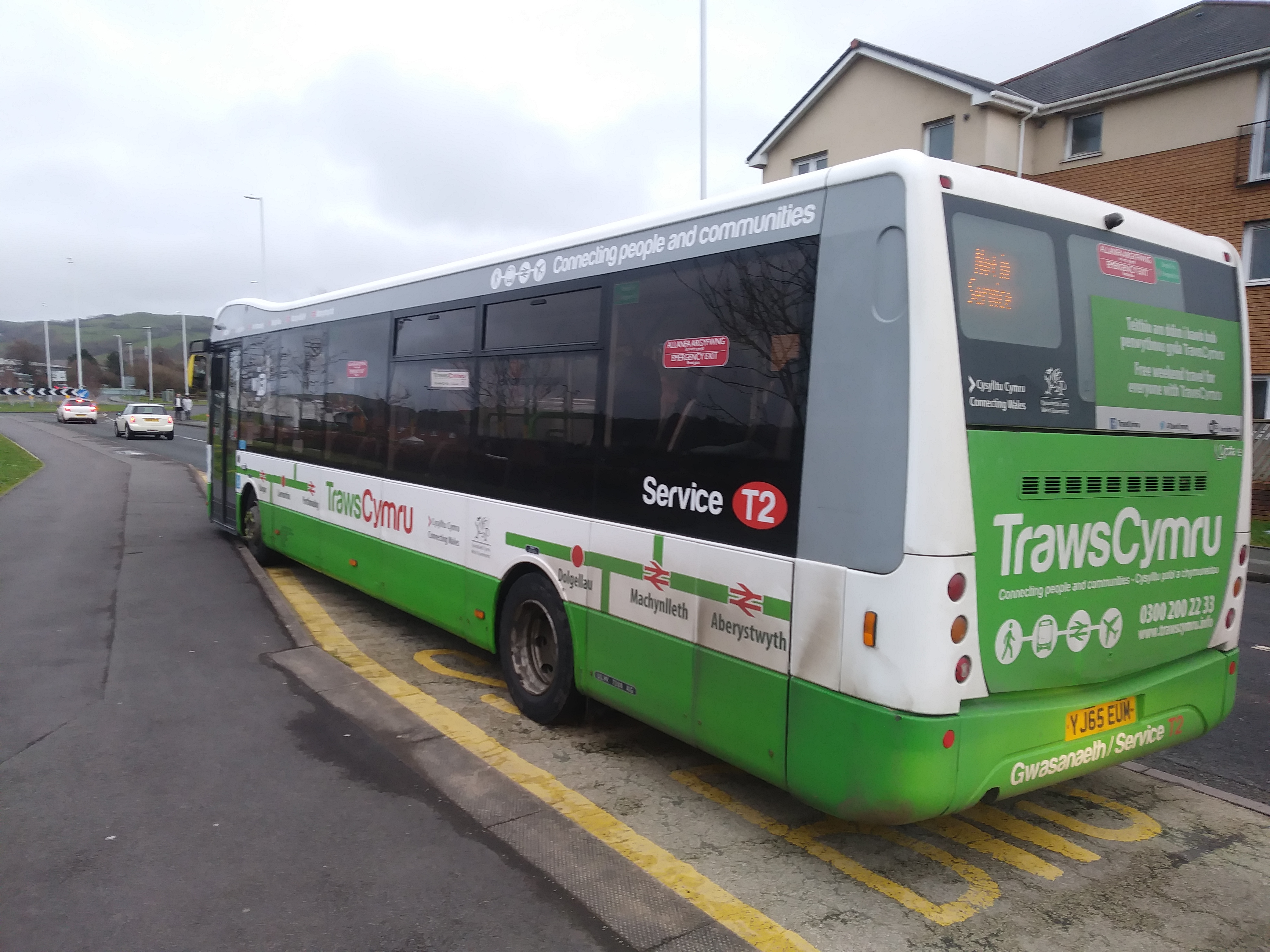 'Traws Cymru' bus service at Aberystwyth, 2019